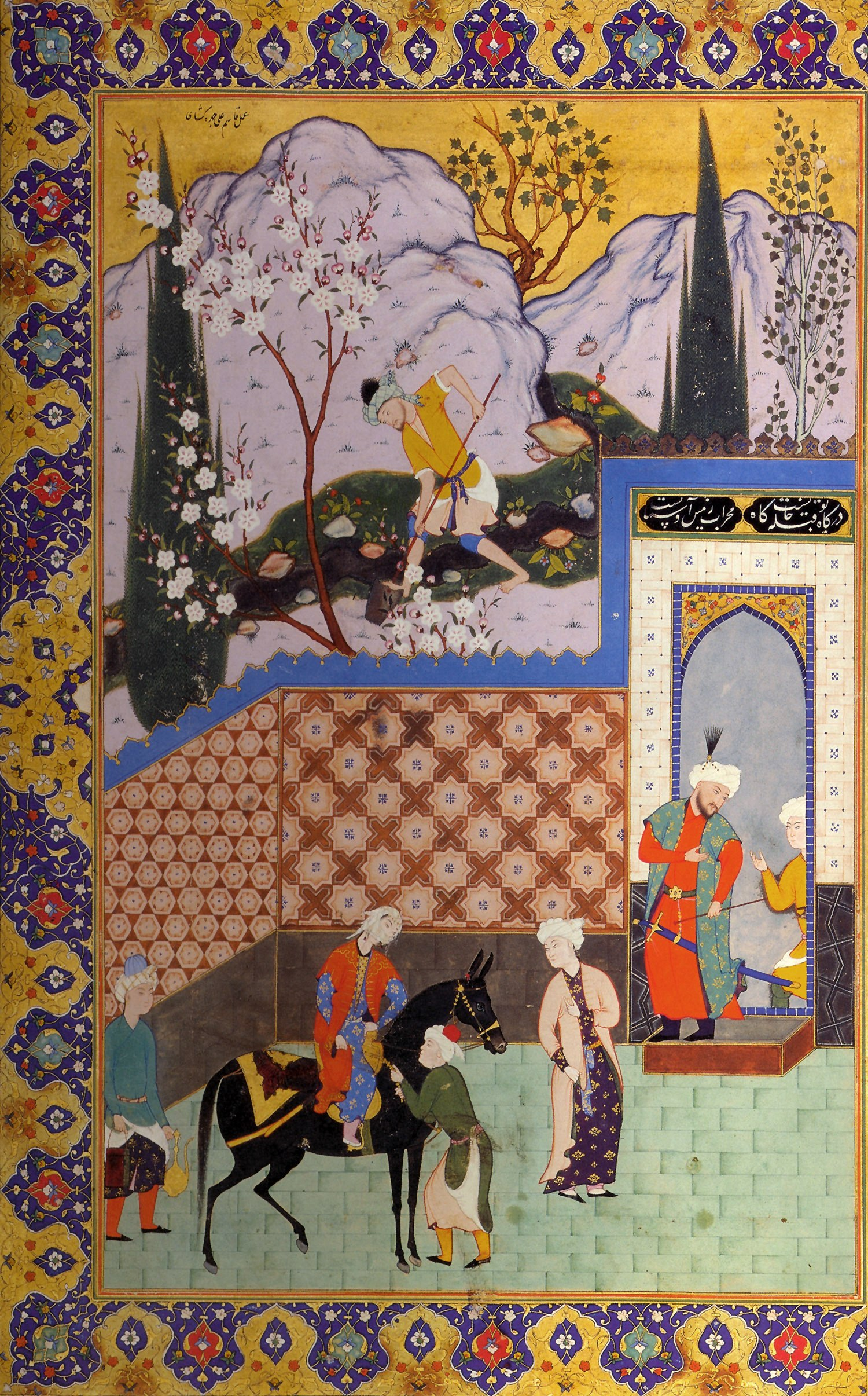 Qasim Ali, Youssof et Zoleykhâ, Panj Ganj, 1521-22, Palais du Golestân, Iran